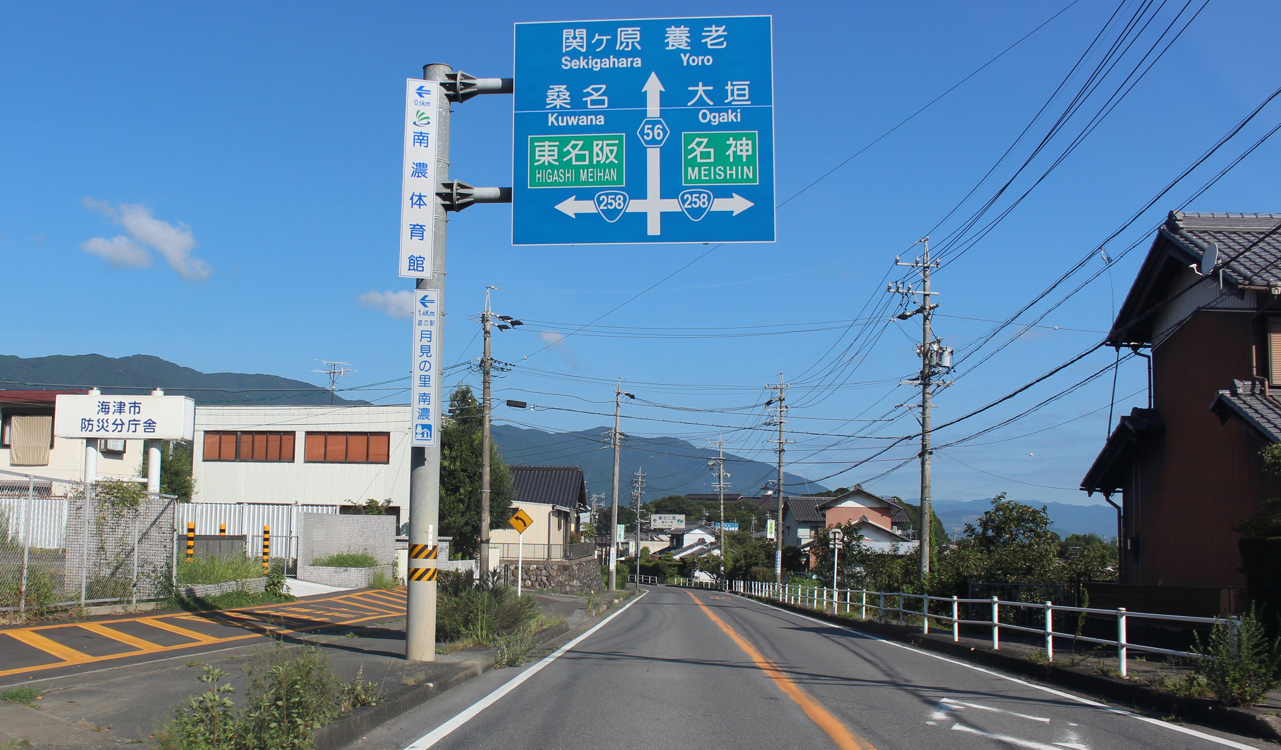 Gifu Prefectural Road Route 8 in Komano, Nannocho, Kaizu, Gifu prefecture, Japan.